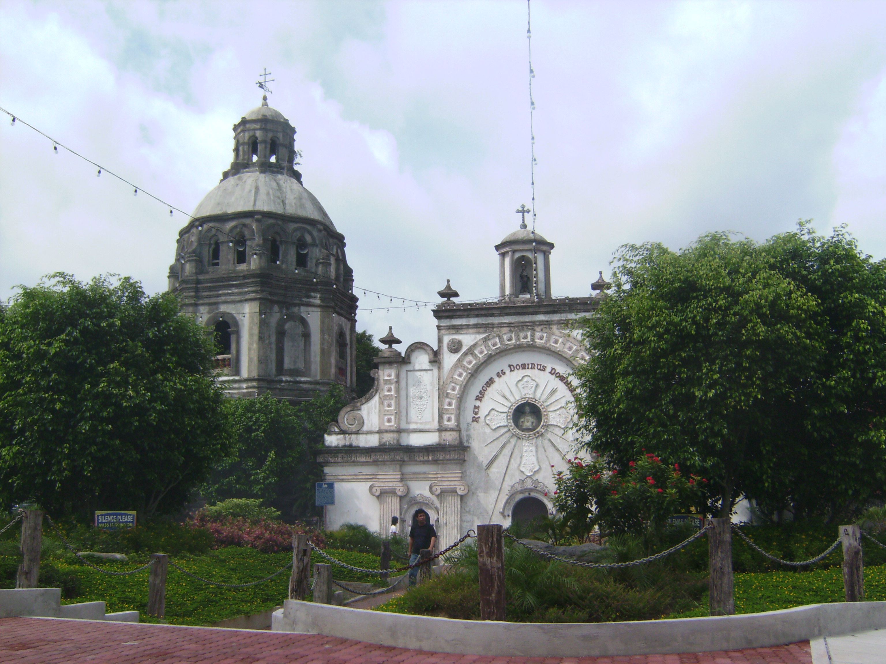 This is a picture of lava sunken church of Bacolor